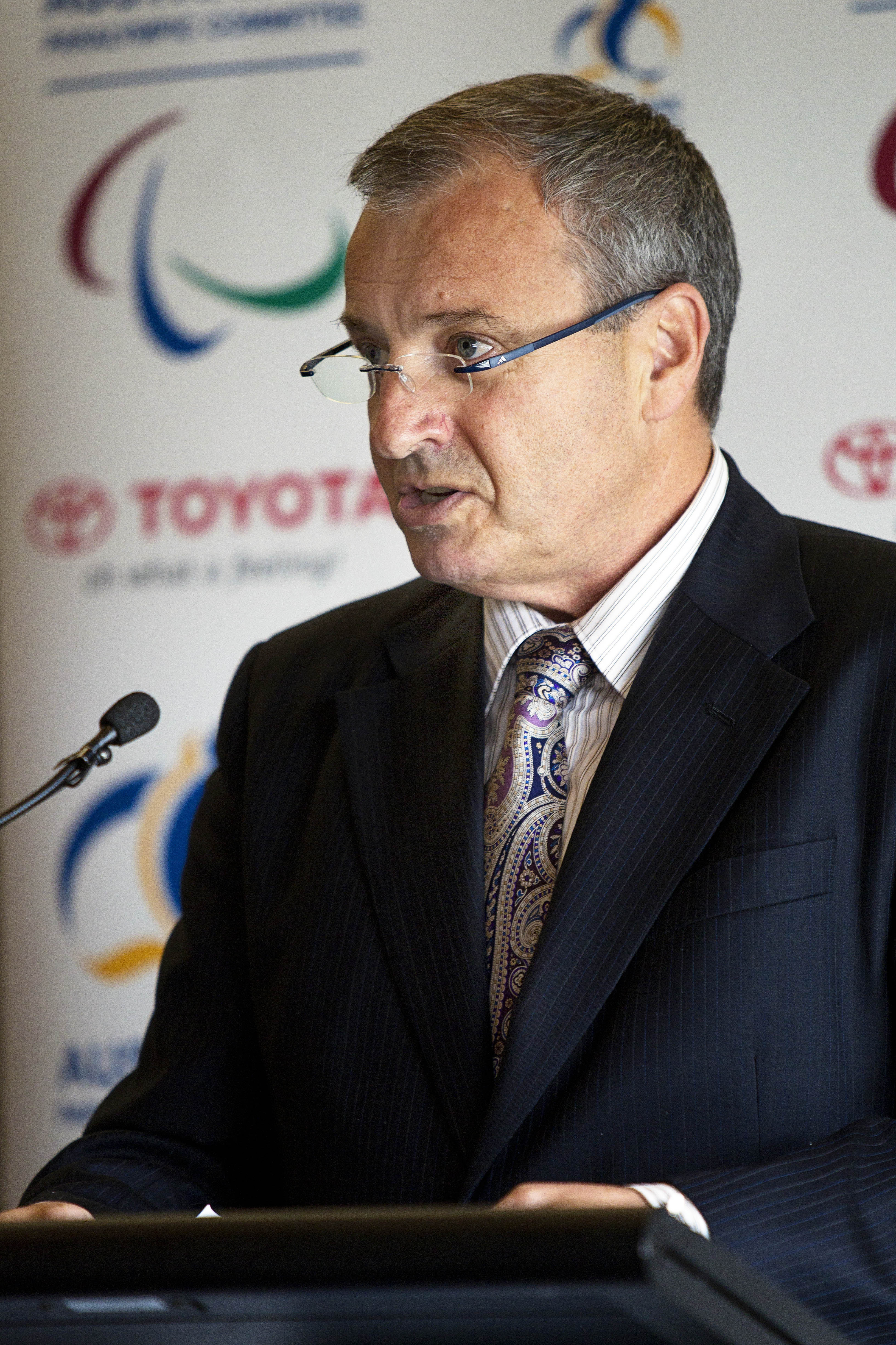 Australian Paralympic Committee President Greg Hartung speaks at a function in January 2011